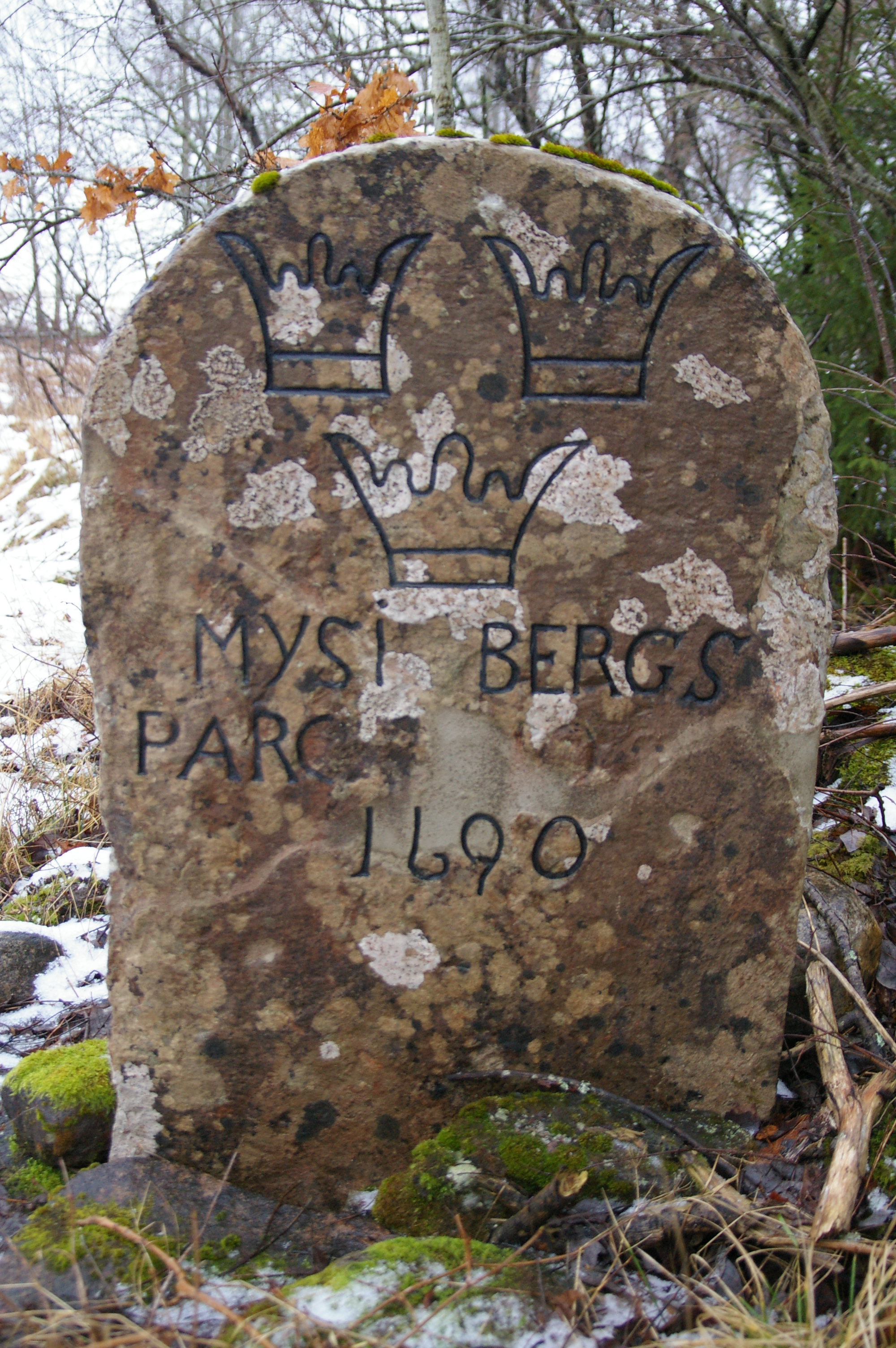 Boundary marker, Mösseberg, Falköping, Västergötland, Sweden.